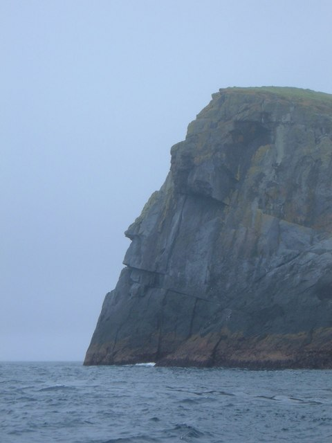 Stac Levenish Cliff silhouette with face (St Kilda group, Western Isles, Scotland)